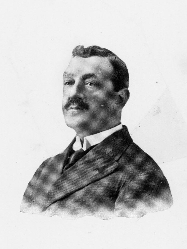 Frank McDonnell. After many positions in retail, with Finney Isles and Co and Edward & Lamb in Brisbane Frank McDonnell established the firm of McDonnell and East. Frank McDonnell, was a Labor campaigner for early closing. He was Secretary of Queensland Parliamentary Labor Party, MLA for Fortitude Valley 1896 - 1907, Member of the Legislative Council from 1907-1922.